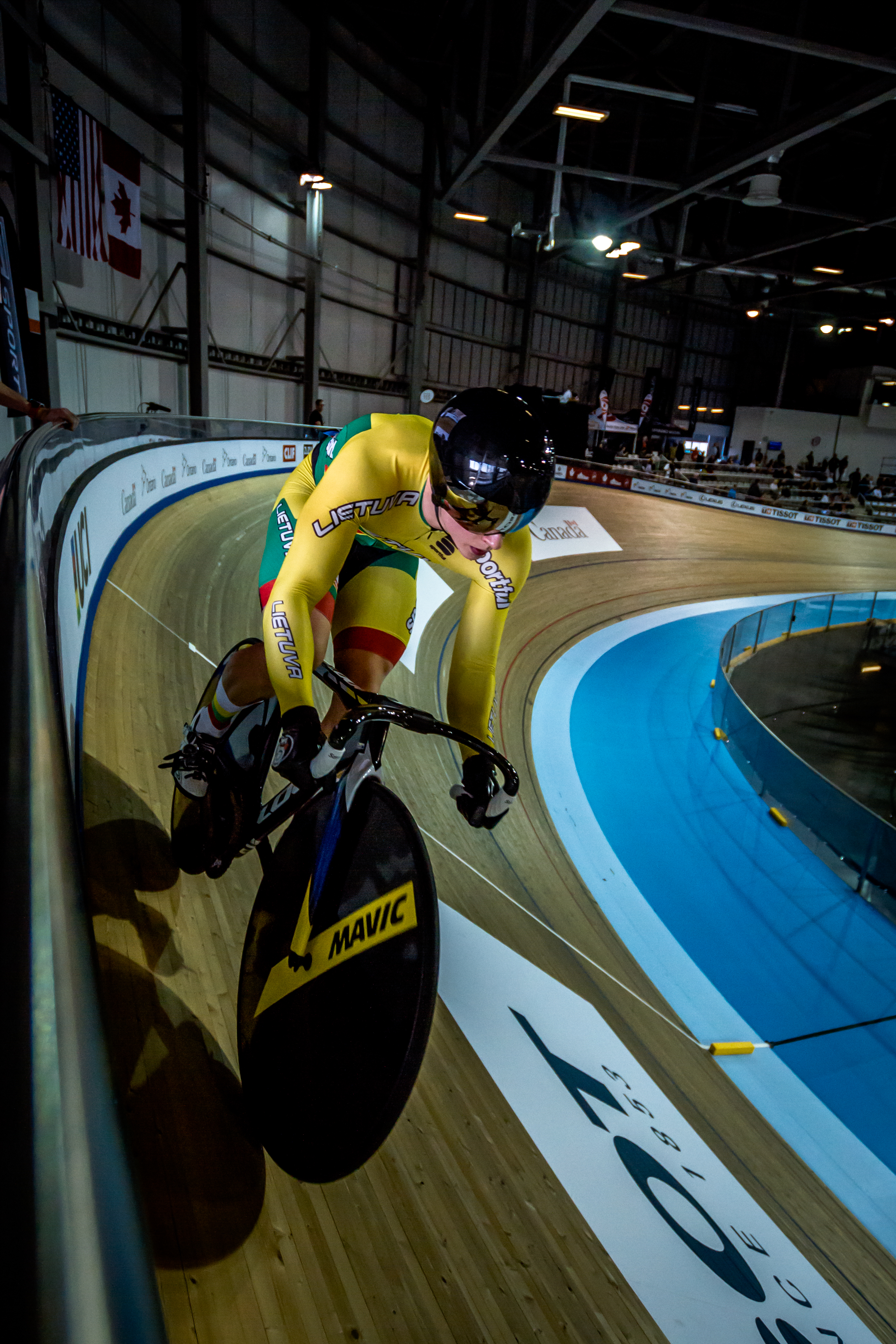 Svajunas Jonauskas of Lithuania, Men's Sprint Qualifying. UCI Track World Cup, Milton, Ontario, Canada. 2017.